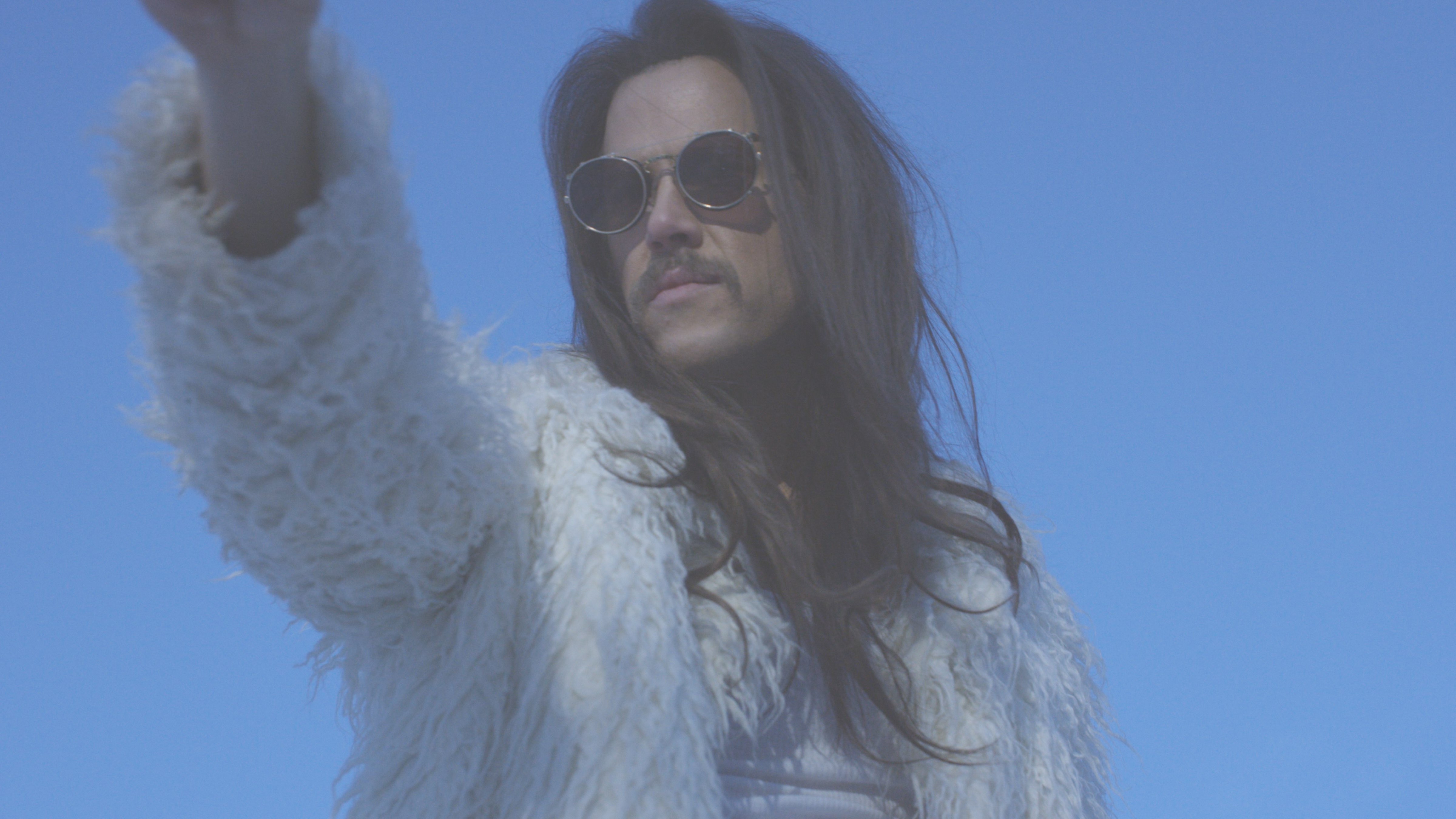 From the Parker Gispert music video "Through The Canvas" shot by Alexa King and Stephen Kinigopoulos in Castalian Springs, Tennessee